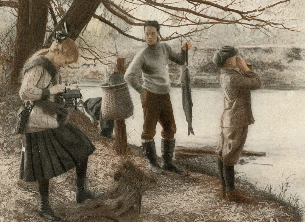 "Every negative can carry the date and title, made on the film at the time. It's all very simple with the Kodak system." Ad on the back cover of the June 22, 1918 Country Gentleman with an illustration that shows the girl writing on the roll film through an opening in the back of the camera. (autographic film)